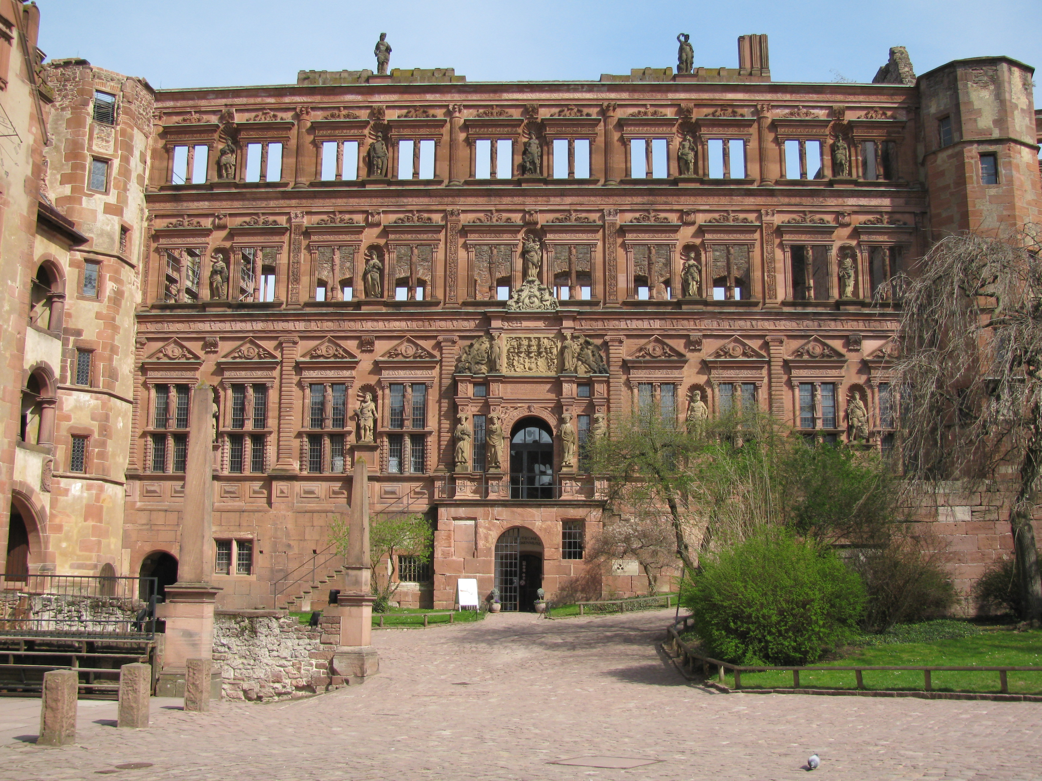 The ruins of the palace "Ottheinrichsbau" in Heidelberg Castle, Germany. Built from 1556 to 1566.